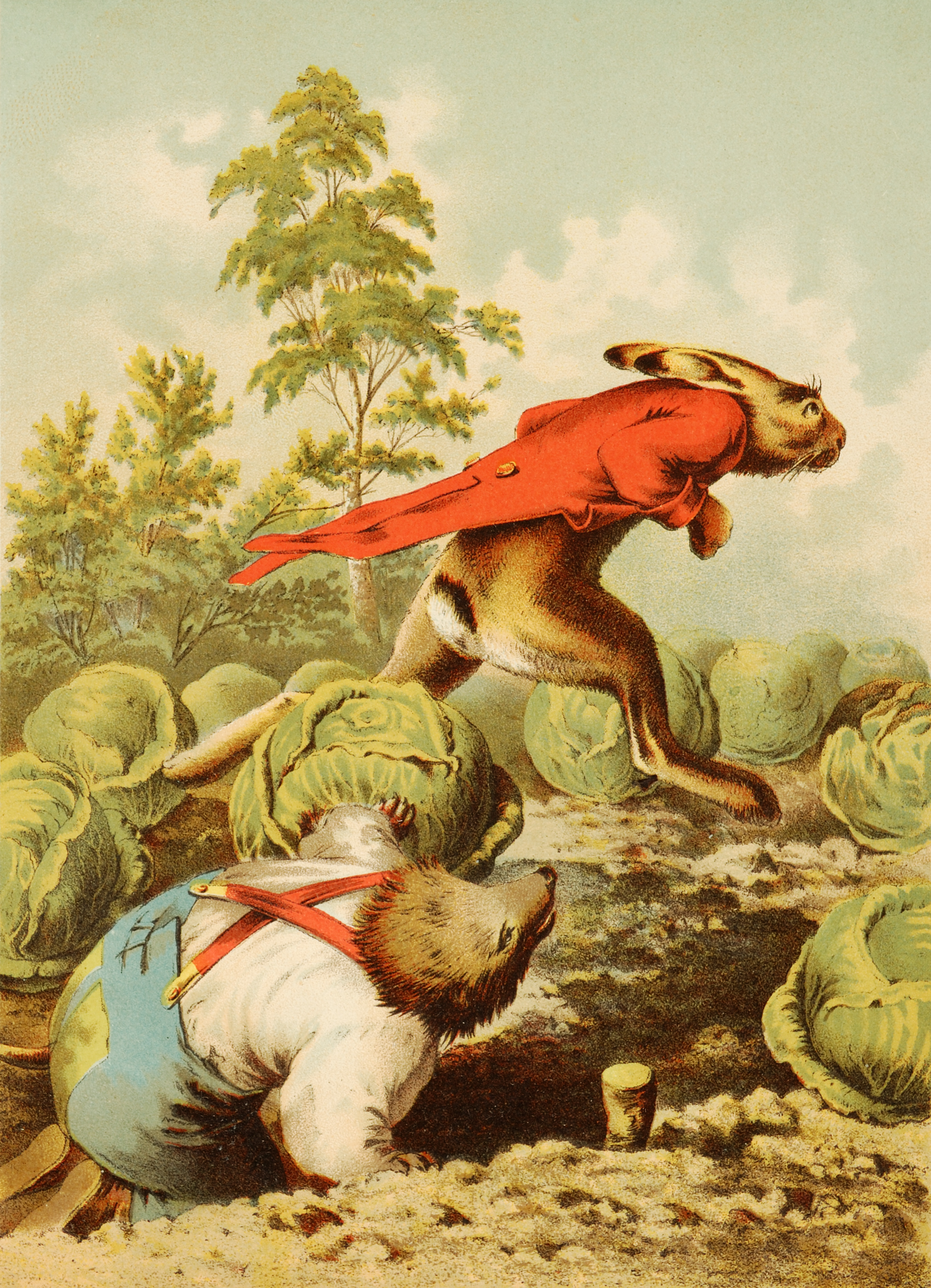 German fairy tale Der Hase und der Igel, illustration by Heinrich Leutemann or Carl Offterdinger